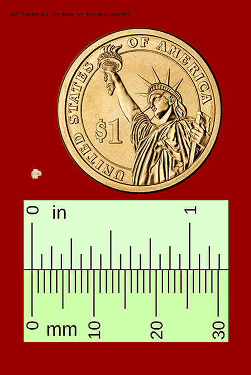 One simple crumb of this size contains enough gluten to its ingestion can cause a number of important digestive discomfort in people with celiac disease or non-celiac gluten sensitivity, when they are following a diet free of gluten. Consuming gluten even in small quantities, whether voluntary or not, carries potential risks of triggering associated diseases, so it is important warning about it. This is made frequently without knowledge to it and is considered as a part of the so-called "cross contamination".